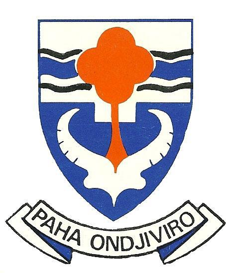 Its a school logo